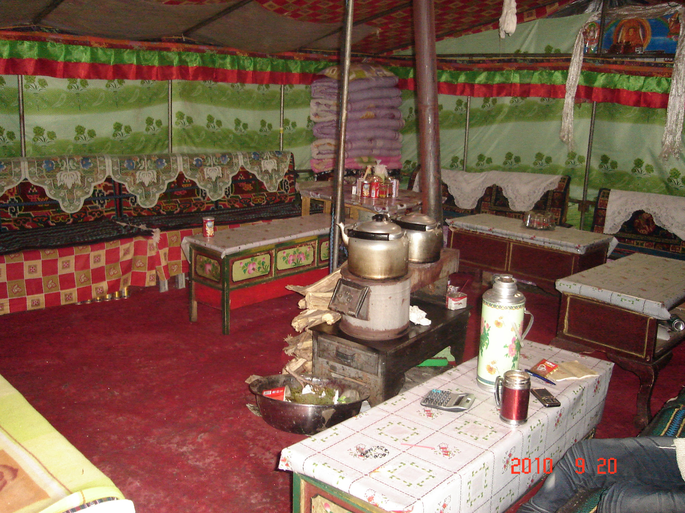 This is the interior of a tea house/hotel located at Everest Base Camp, Tibet, where tourists can get a meal or stay over night.